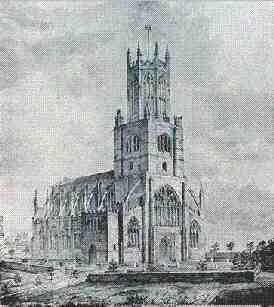 Fotheringhay church, drawing by Lt. John Bradshaw ~1850.